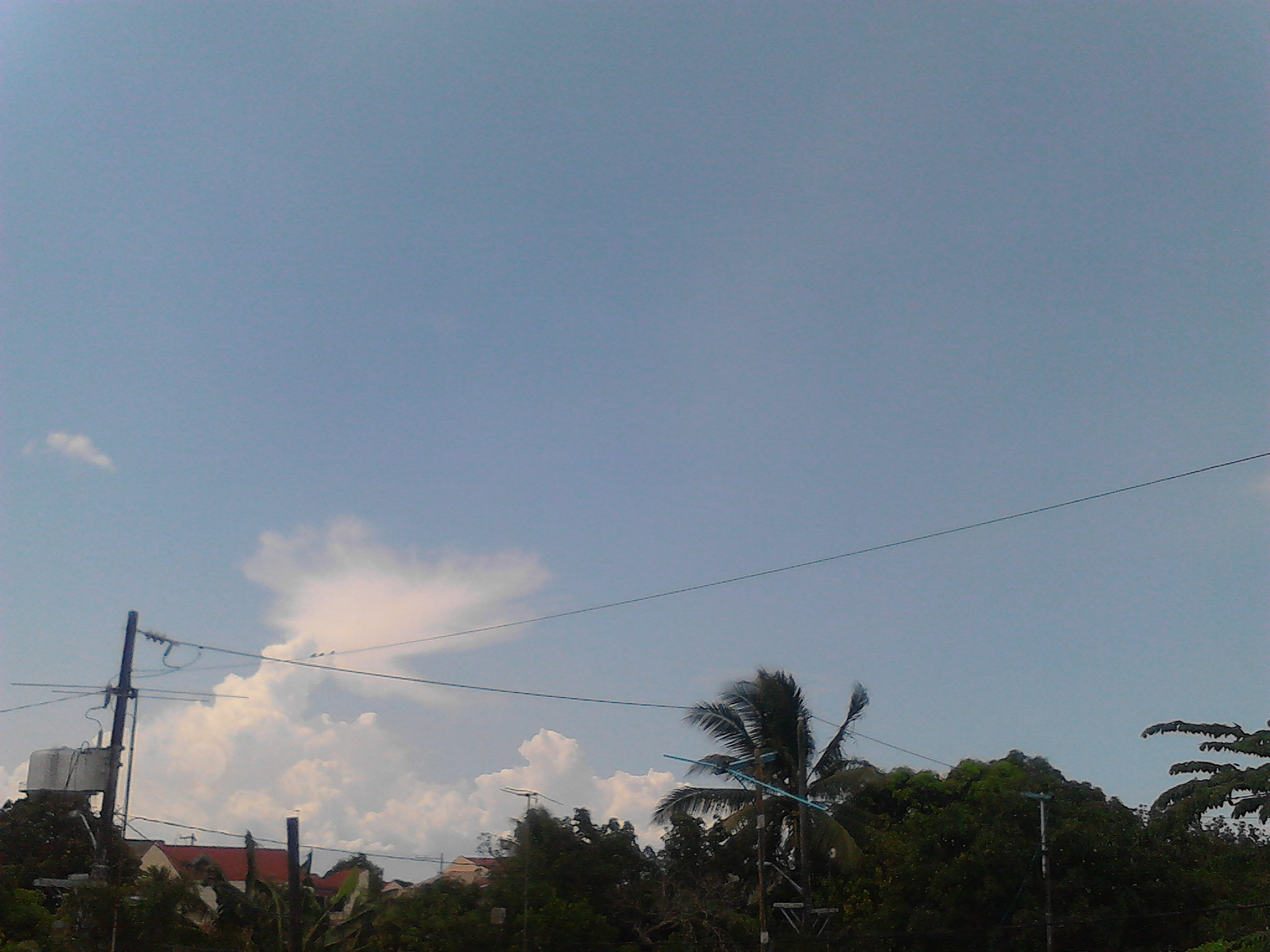 Skyline of Sitio Manfil on 2018